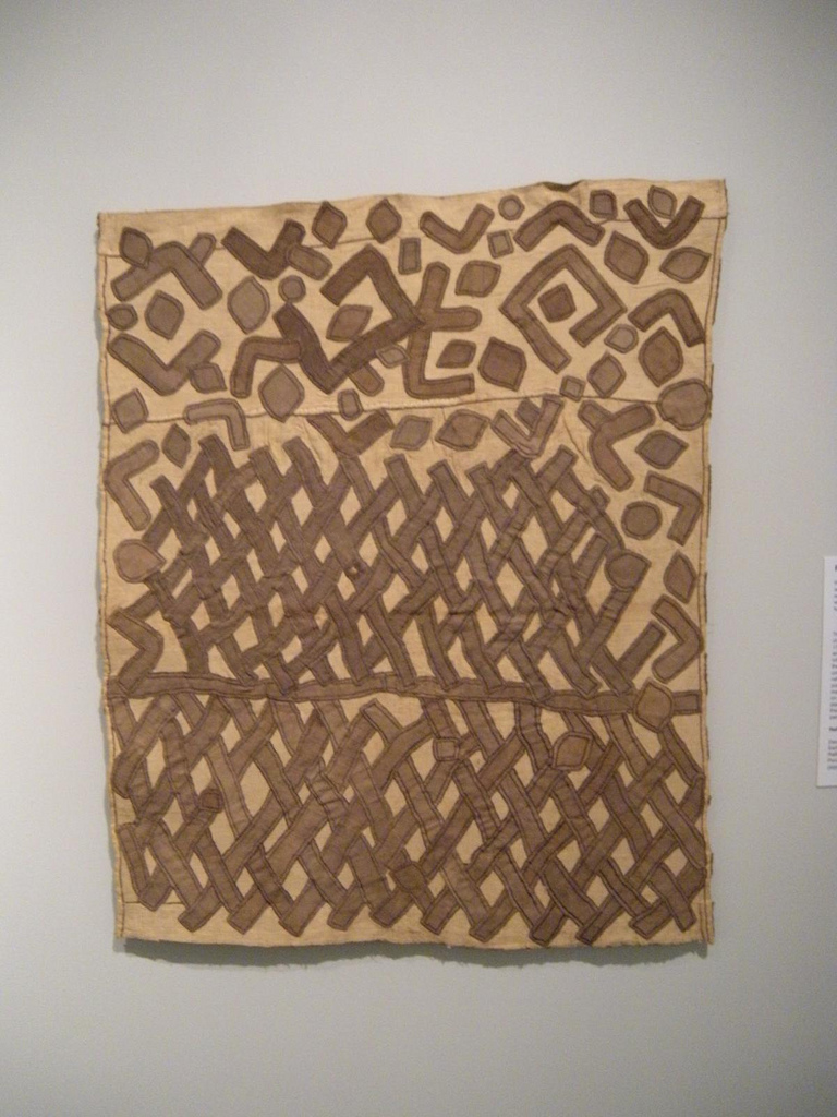 Raffia Cloth Democratic Republic of the Congo, Kuba Early-mid 20th century Raffia fiber; plain weave, appliqué Purchase, 1986 (5653.1) Wikipedia Loves Art at the Honolulu Academy of Arts This photo of item # 5653.1 at the Honolulu Academy of Arts was contributed under the team name "airforceJK" as part of the Wikipedia Loves Art project in February 2009. Honolulu Academy of Arts The original photograph on Flickr was taken by airforceJK—please add a comment to the original Flickr page whenever a use has been made on Wikipedia or another project. Project galleries on Flickr: this institution, this team